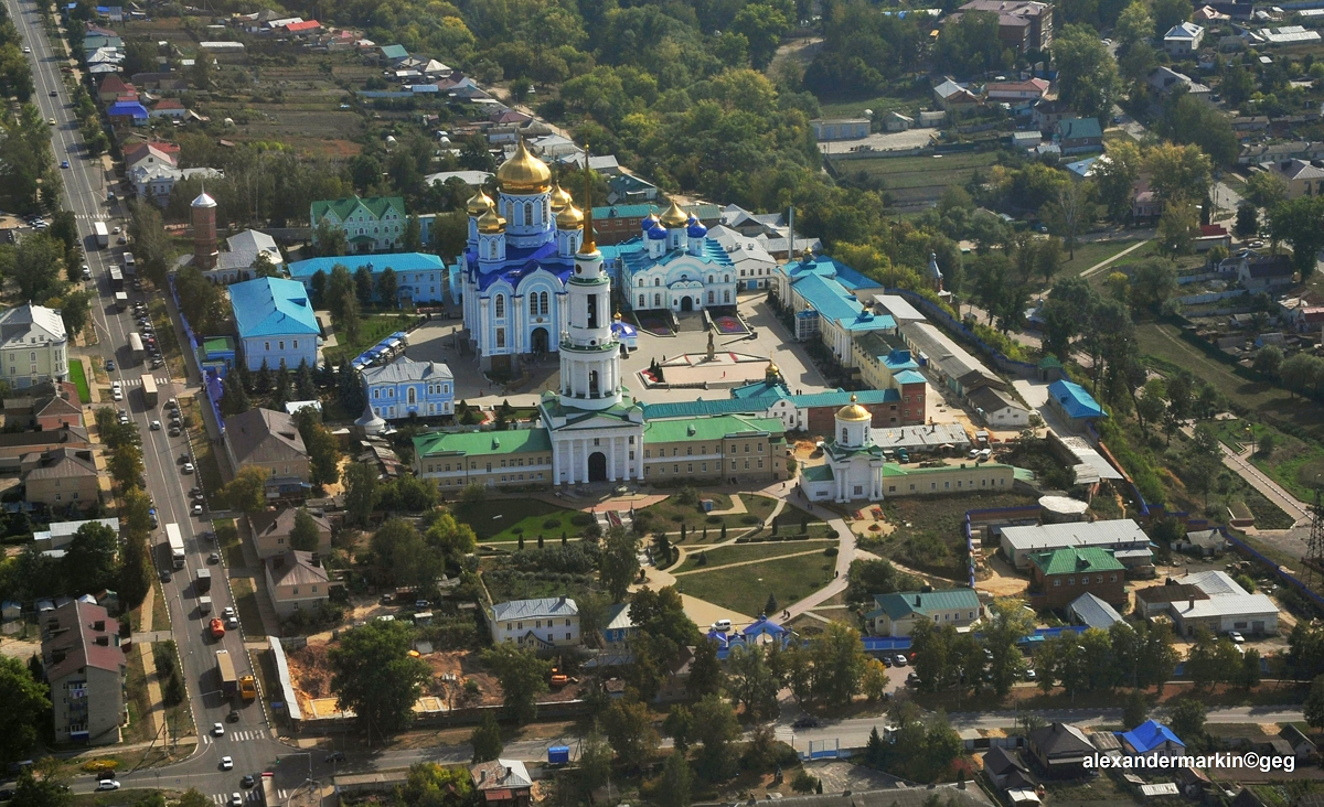 Monastery of the Nativity of the Virgin Mary (Zadonsk)